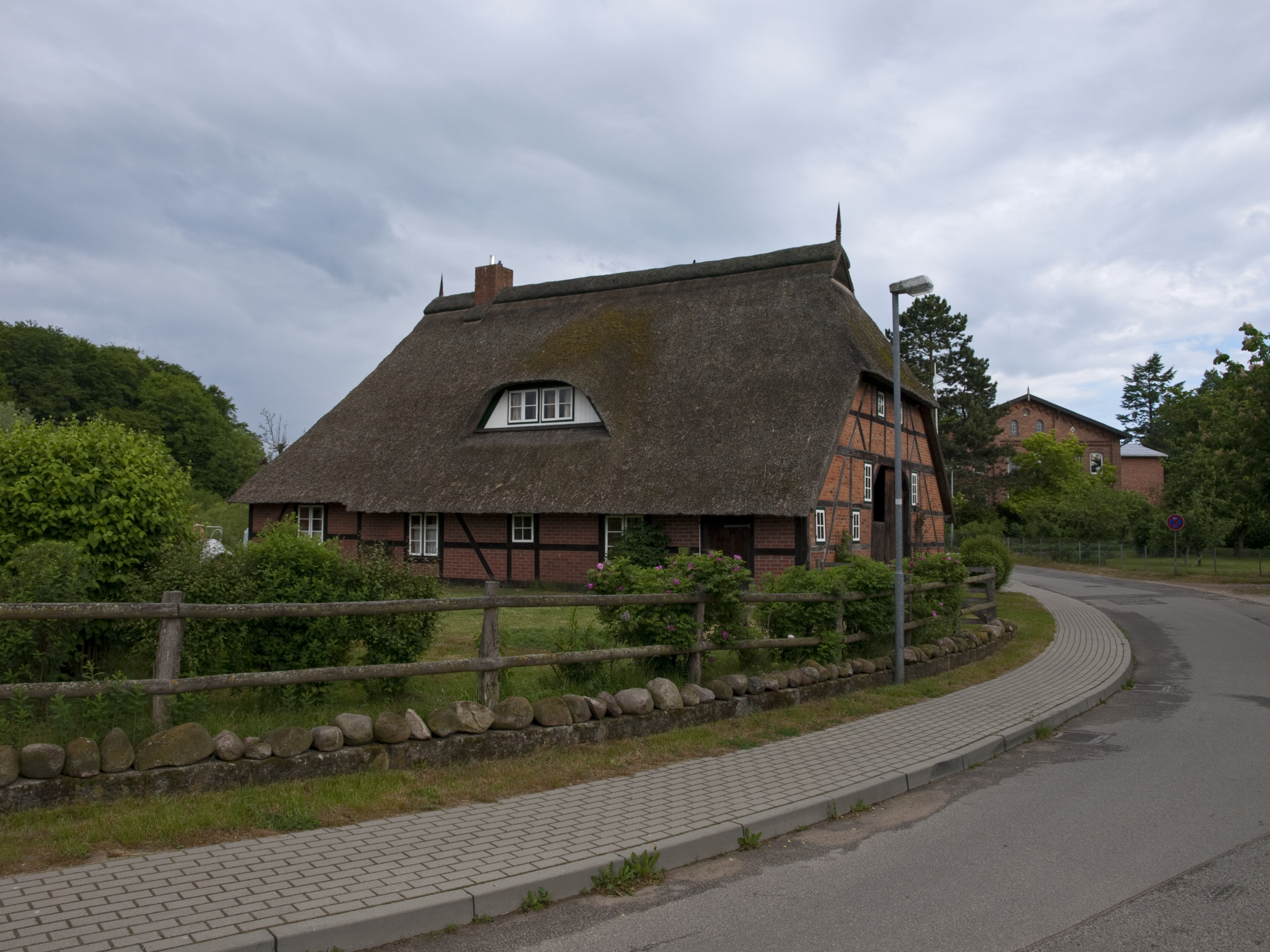 13 Doffstrasse, Buchholz